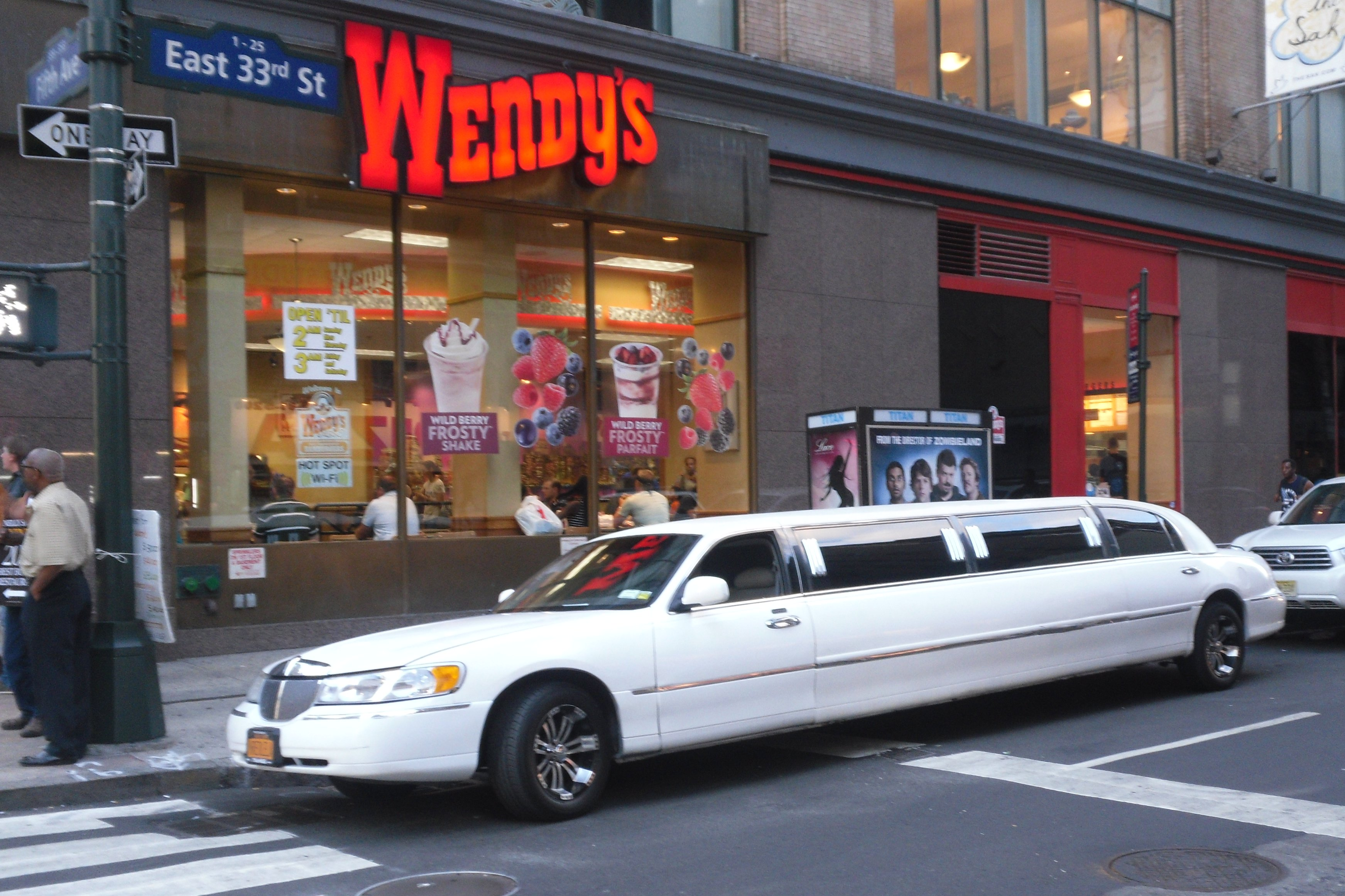 Lincoln Town Car stretch limo in NYC in front of Wendy´s restaurant on 5th Avenue